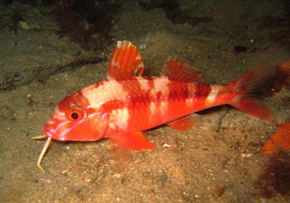 A Blue-lined Goatfish (Upeneichthys lineatus). Fly Point, Port Stephens, NSW